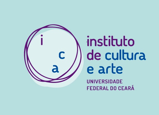 Instituto de Cultura e Arte UFC